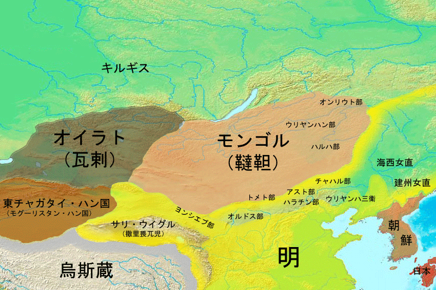 Map of Mongols and Oirats territories in the greater Mongolian region.